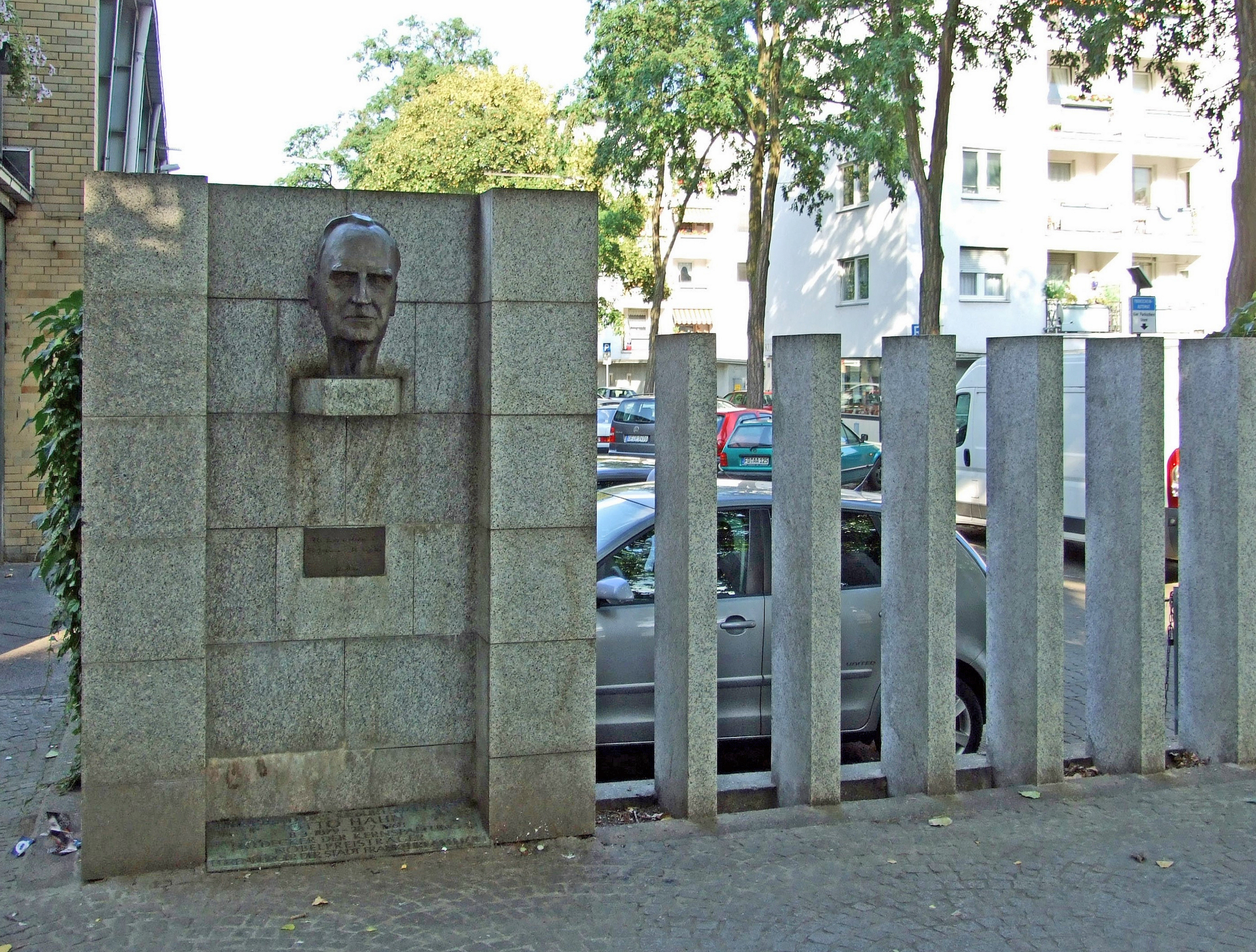 Otto-Hahn-Memorial, at the place of the former house of his birth, near the south-west corner of "Kleinmarkthalle" in Frankfurt am Main